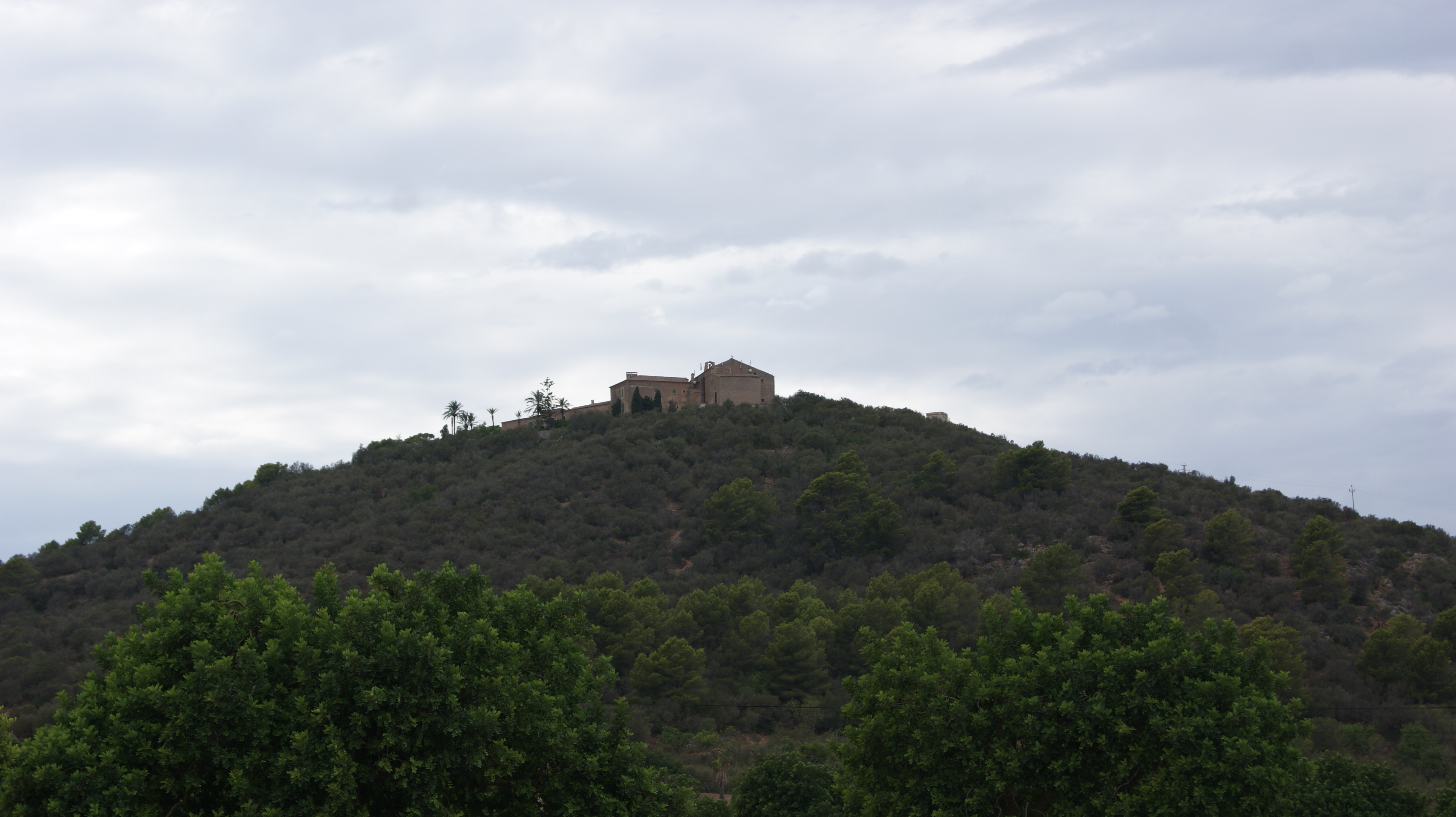 Santuari de Monti-Sión (former monastery and school) near Porreres on Mallorca.